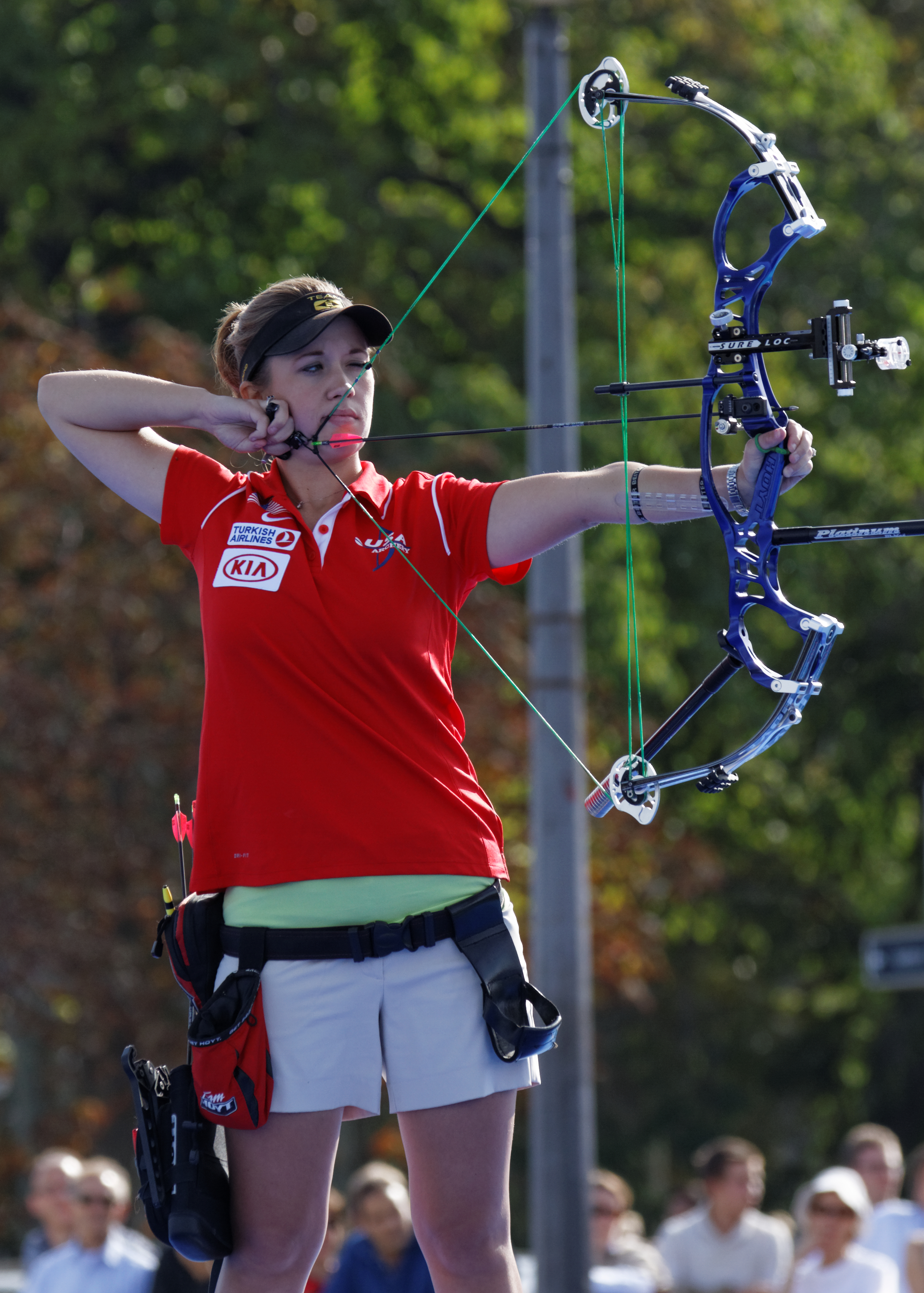 2013 FITA Archery World Cup, Paris, France. Women's individual compound final: Alejandra Usquiano vs Erika Jones.